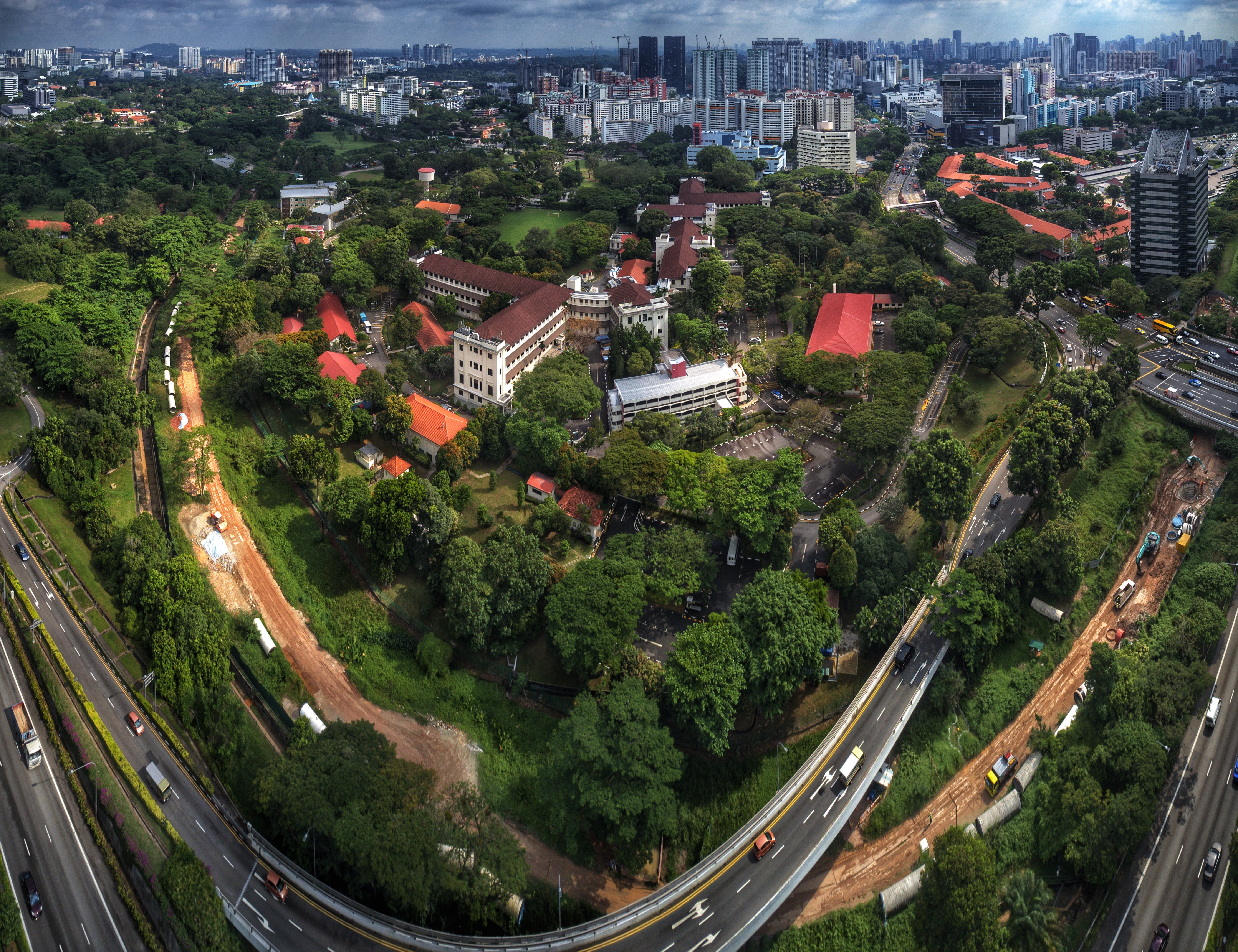 Aerial perspective of Alexandra Hospital, Singapore and its leafy surrounds. Taken October 2018